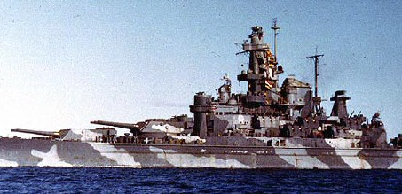 Detail of File:USS Alabama (BB-60).jpg, originally from Naval Historical Center, photo 80-G-K-445, circa Dec 1942. The camouflage pattern is Measure 12.